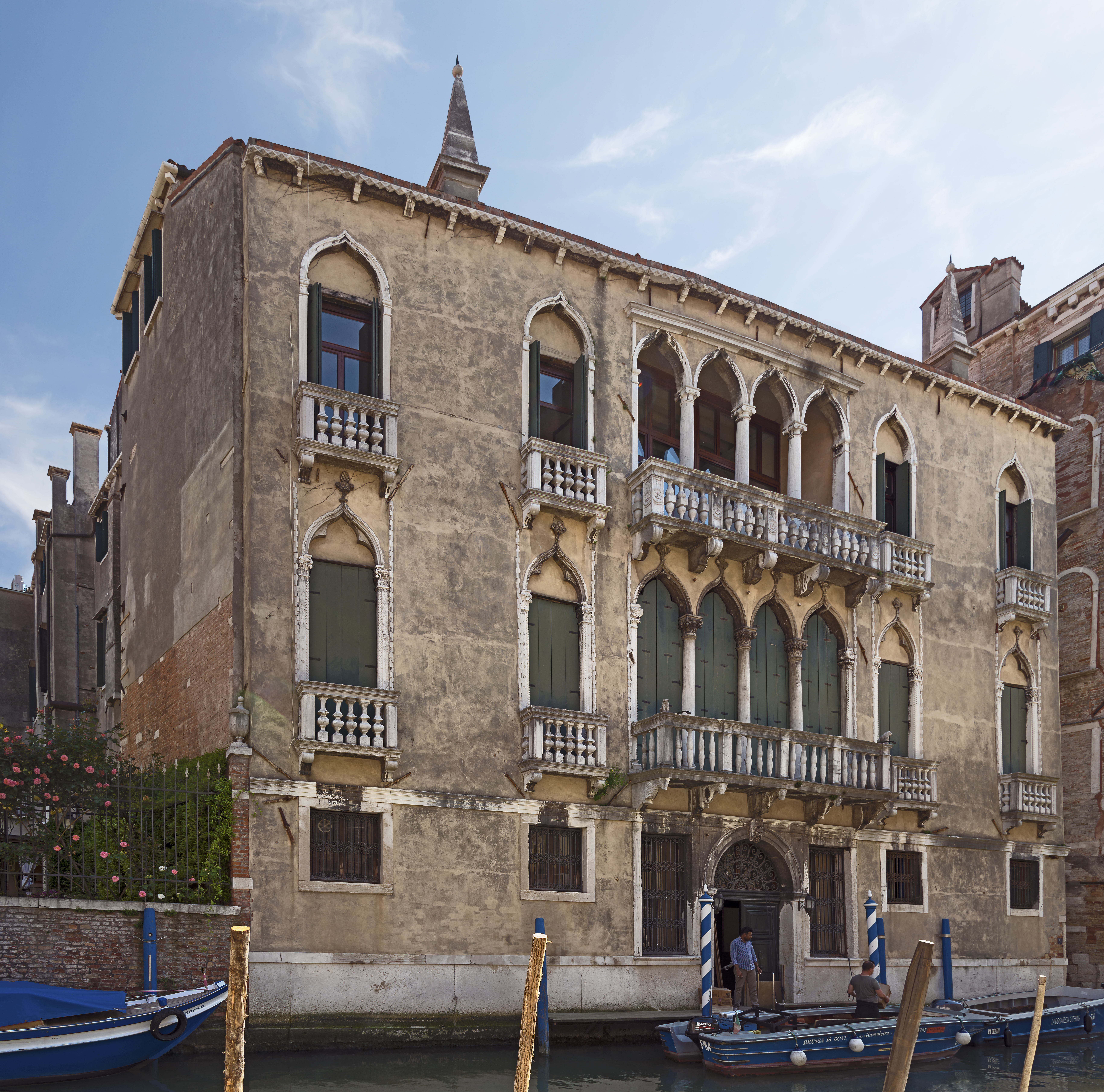 Palace Zen in San_Polo Venice, Facade on Rio de San Stin.